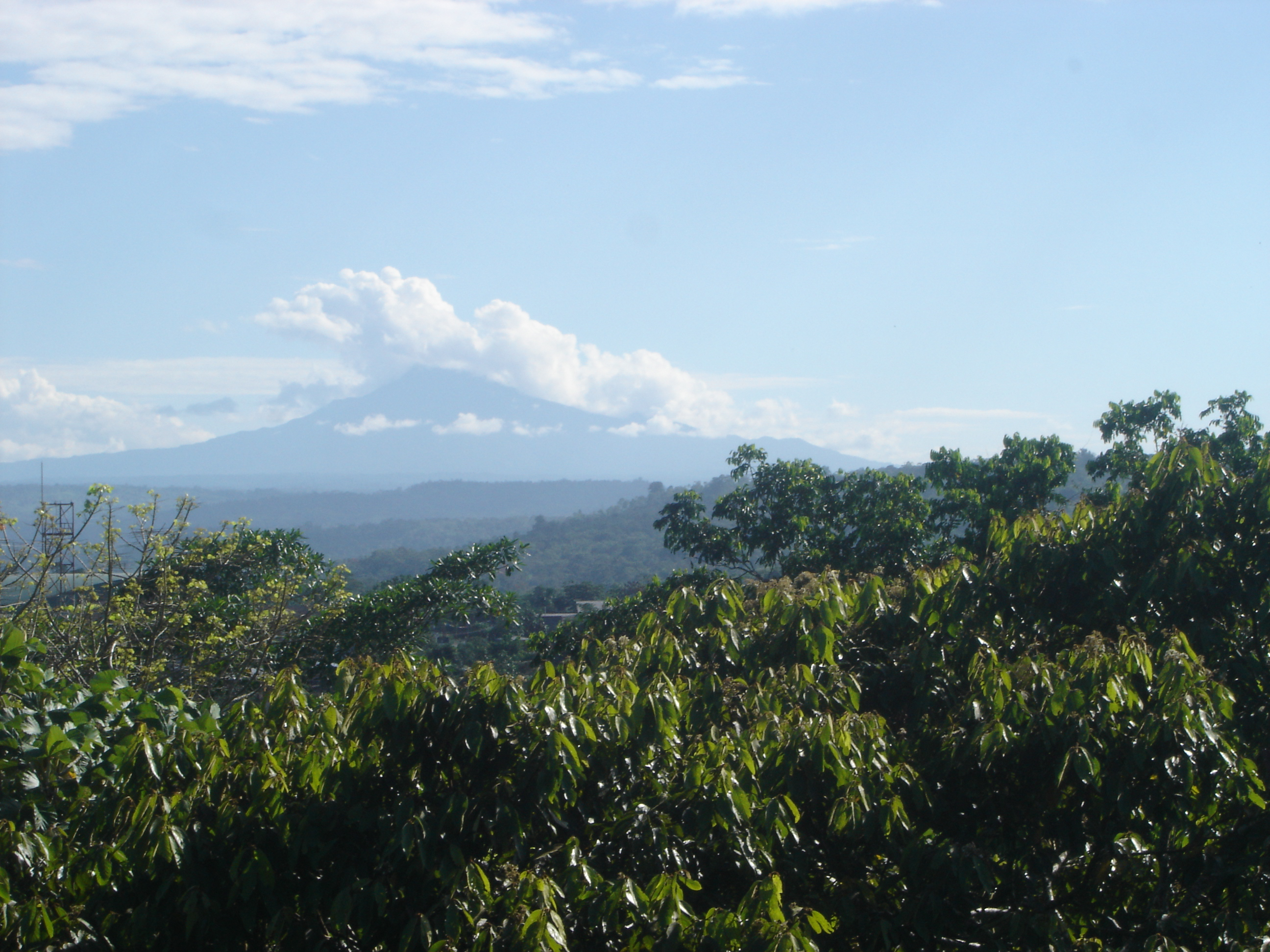 Volcan Sumaco, Ecuador, viewed from Tena